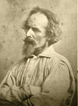 Photo of Frederic Shields, 1900s